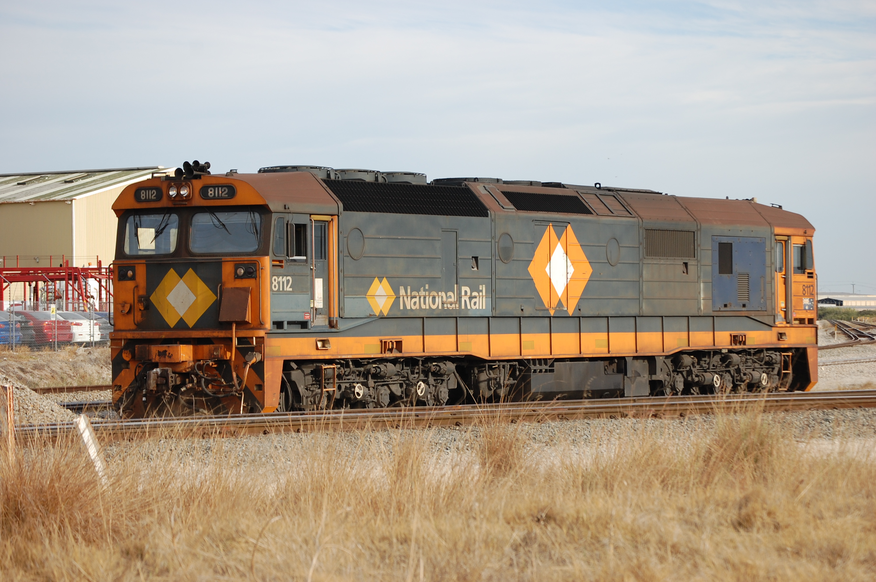 8112 In full National Rail livery sits at Kewdale as the shunter for a period of time in 2009